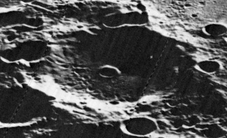 Oblique view of Cabannes, on the far side of the moon, facing west.